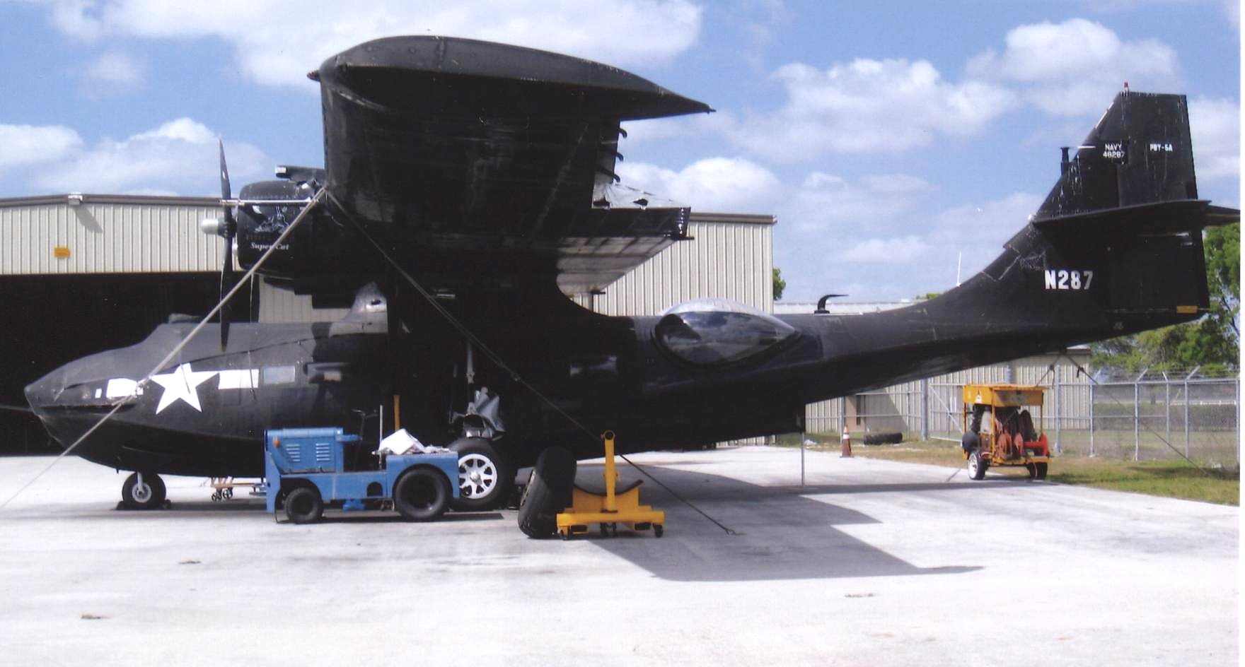 Consolidated PBY-5A Catalina N287 with modified fin and wearing US Navy markings at the Wings over Miami air museum